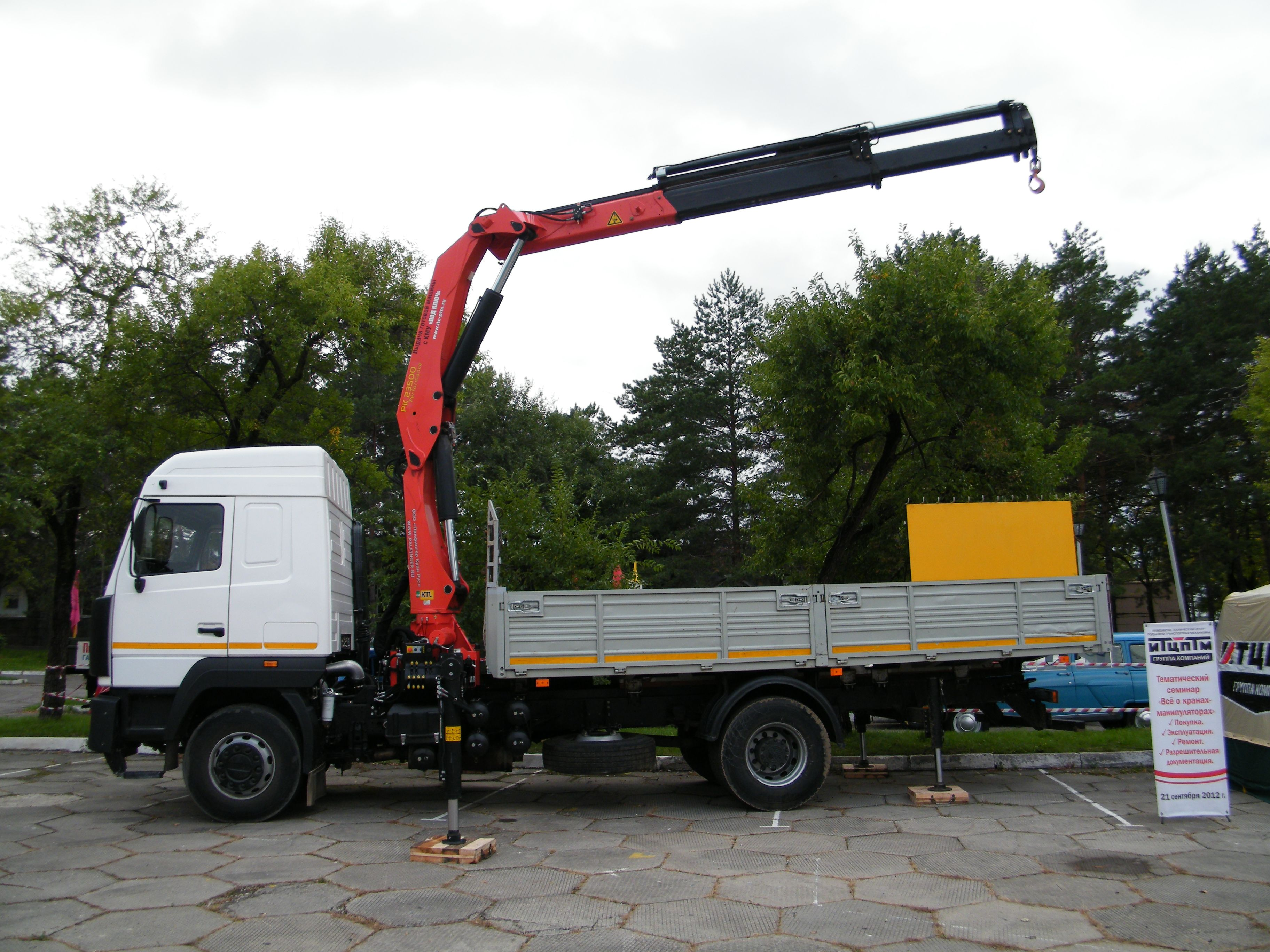 Exhibitions in Khabarovsk